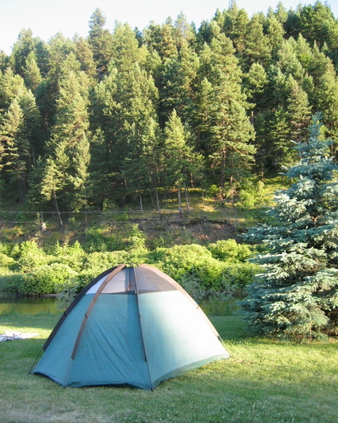 Hilgard Junction State Recreation Area campground along the Grande Ronde River (pictured) next to Interstate 84 at its intersection with Highway 244.